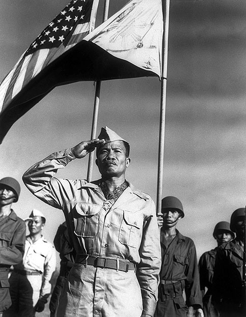 Sgt. Jose Calugas, Philippine Scout, salutes the officer who presented him with the Medal of Honor for gallantry on Bataan. Sgt. Calugas is the first Filipino to receive this highest award of the United States. Camp Olivas.